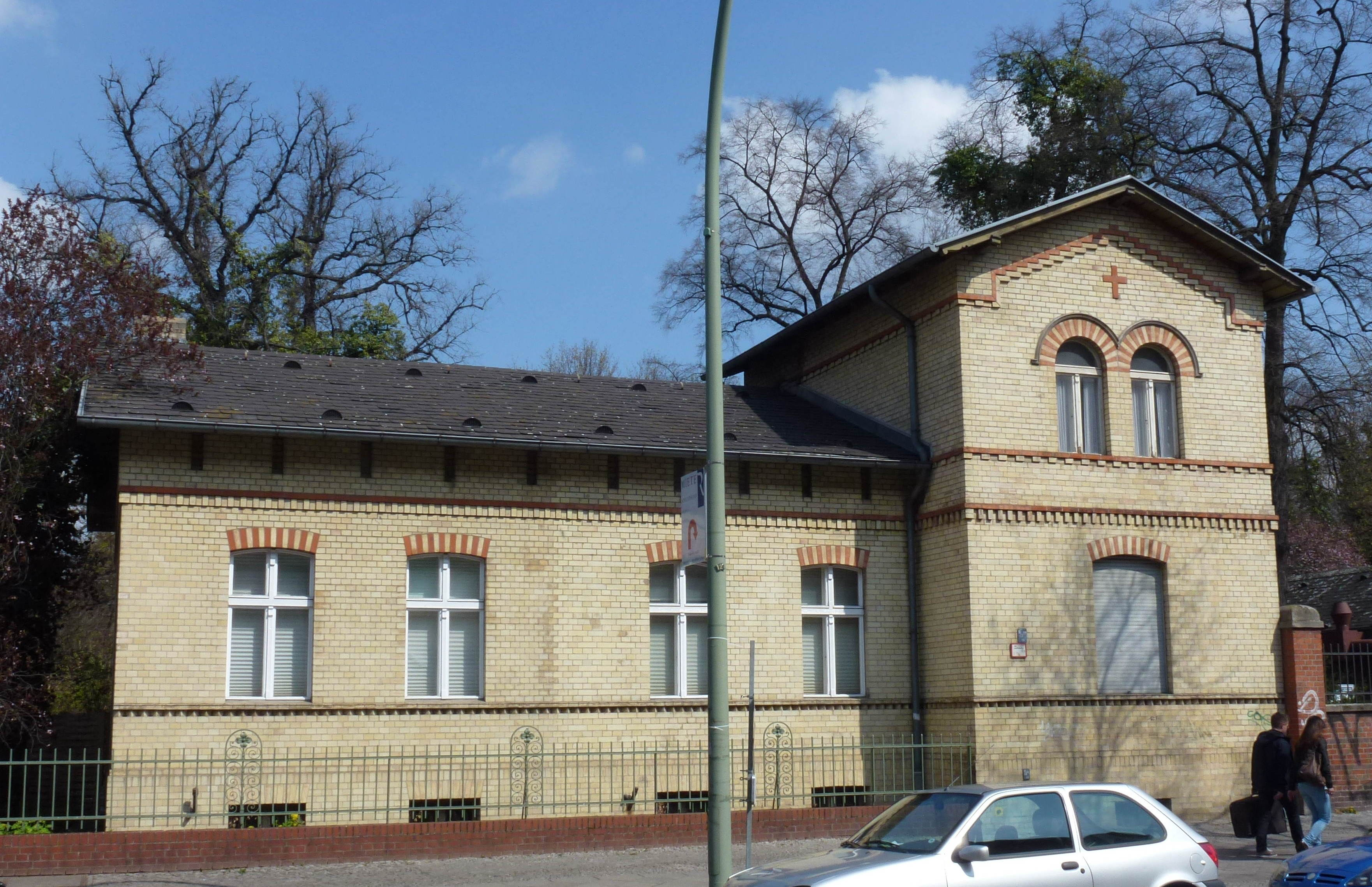 Berlin-Wedding Müllerstraße Totengräberhaus